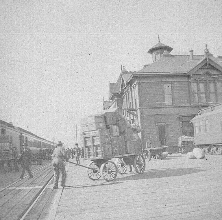 Handwritten on verso: Depot Spokane, Wash. PH Coll 492.35 Subjects (LCTGM): Railroad stations--Washington State--Spokane; Railroad tracks--Washington (State)--Spokane; Railroad passenger cars--Washington (State)--Spokane; Carts & wagons--Washington (State)--Spokane